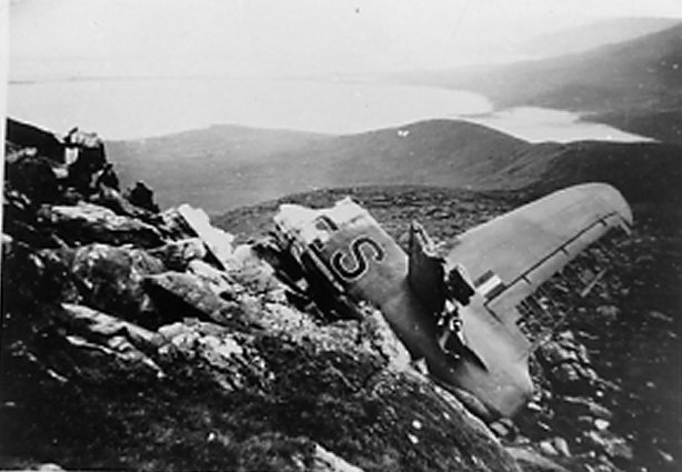 Sunderland Plane Wreckage on Faha Ridge Mountain Brandon 1943.